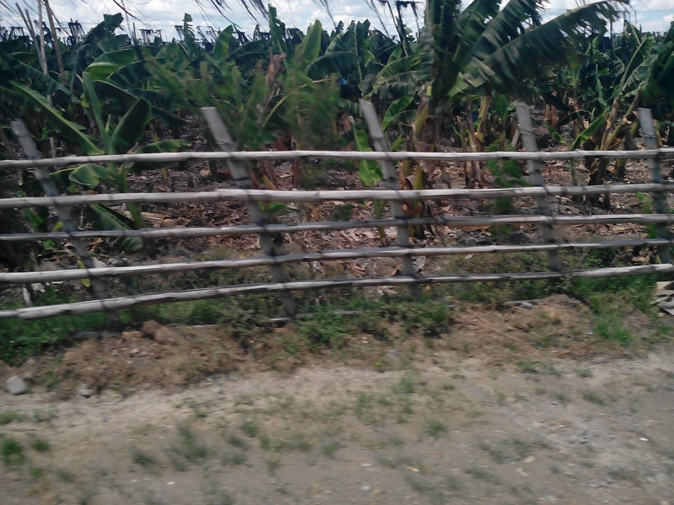 TADECO Banana Farm, Sto. Tomas, Davao del Norte, Philippines